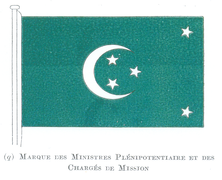 Scan of the Protocole du Royaume d'Égypte, an official French-language book delineating the rules of protocol in force in the Kingdom of Egypt.